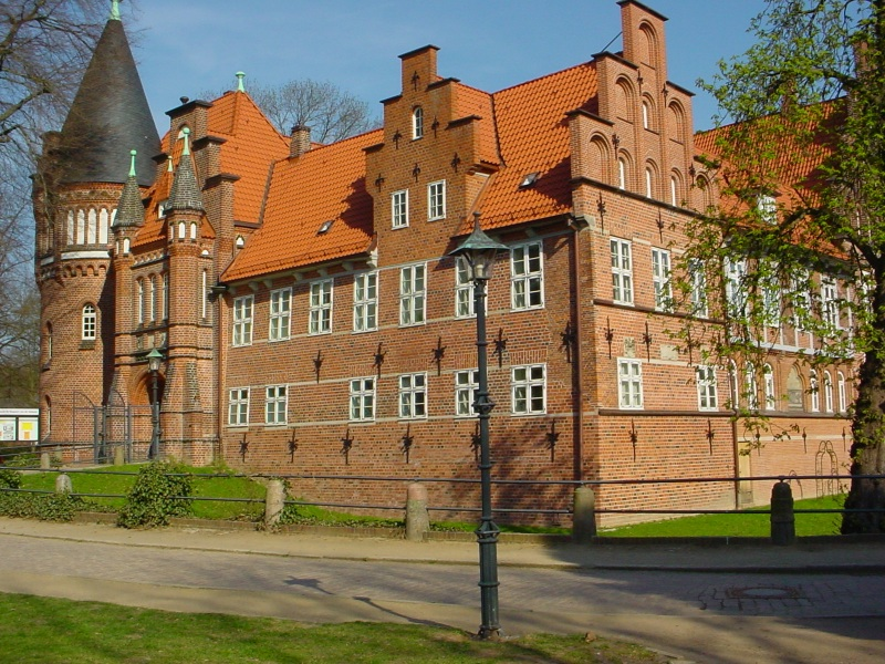 Castle of Bergedorf